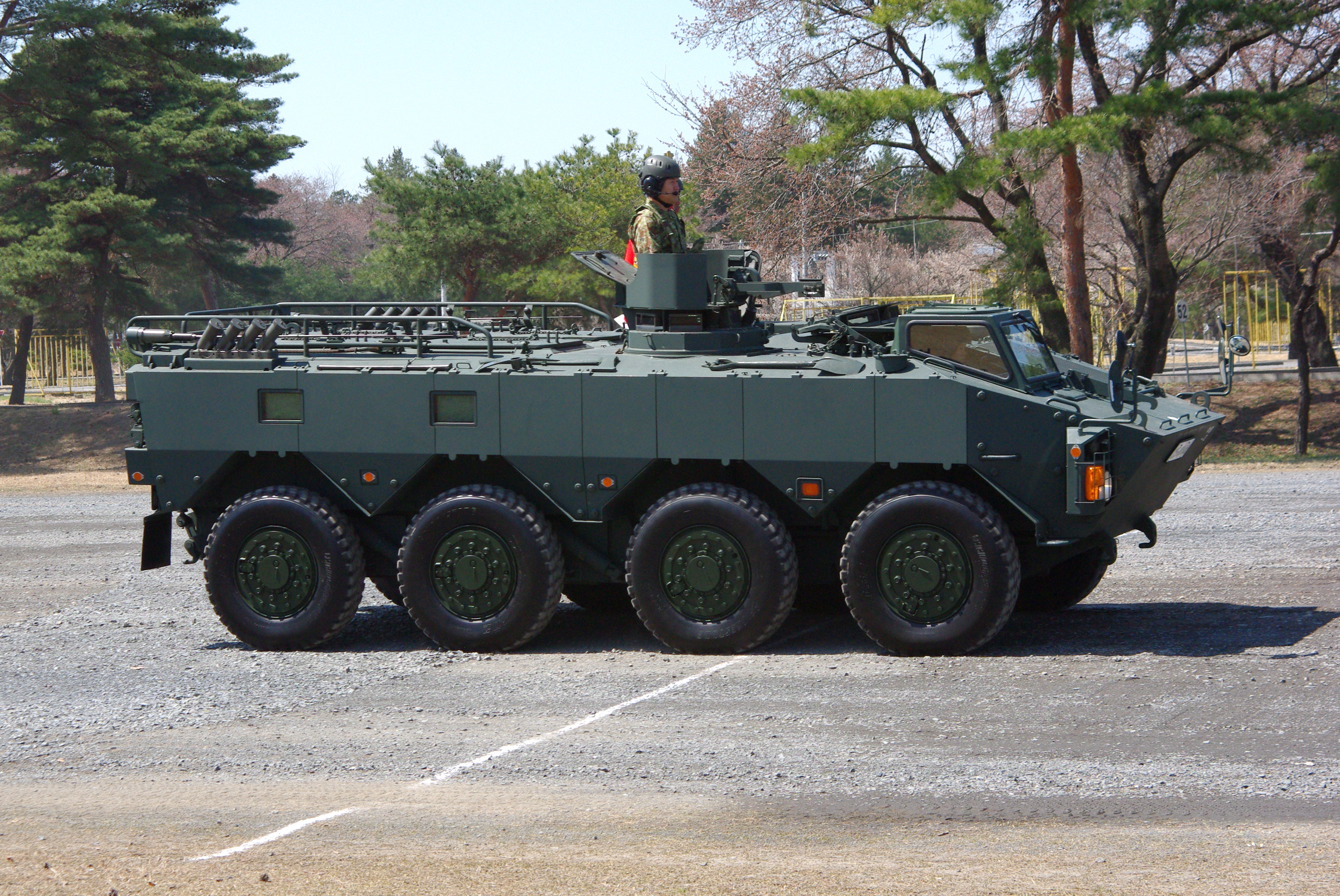 JGSDF Type96(II) Armored Personnel Carrier,Central Readiness Regiment.Taken by Los688,in Camp Utsunomiya,Japan,at 08-Apr-2012.PD-self ja:96式装輪装甲車（II型） 中央即応連隊 2012年04月08日、宇都宮駐屯地で撮影。